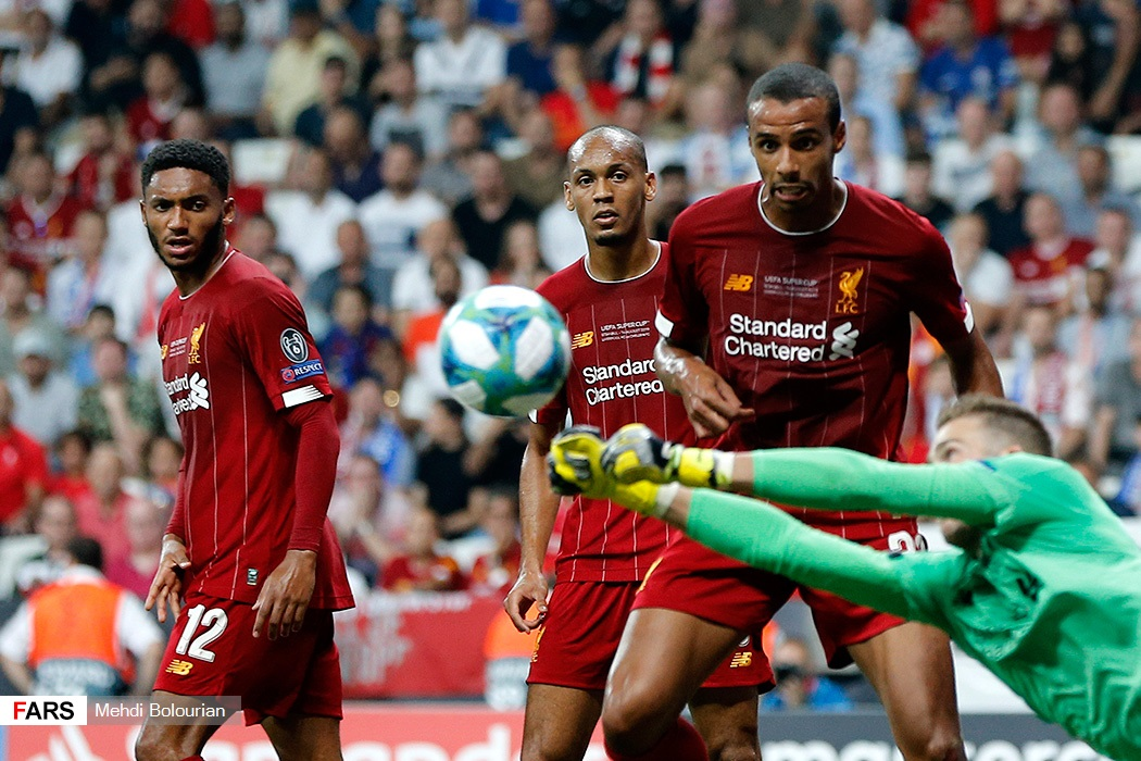 Liverpool vs. Chelsea, 2019 UEFA Super Cup